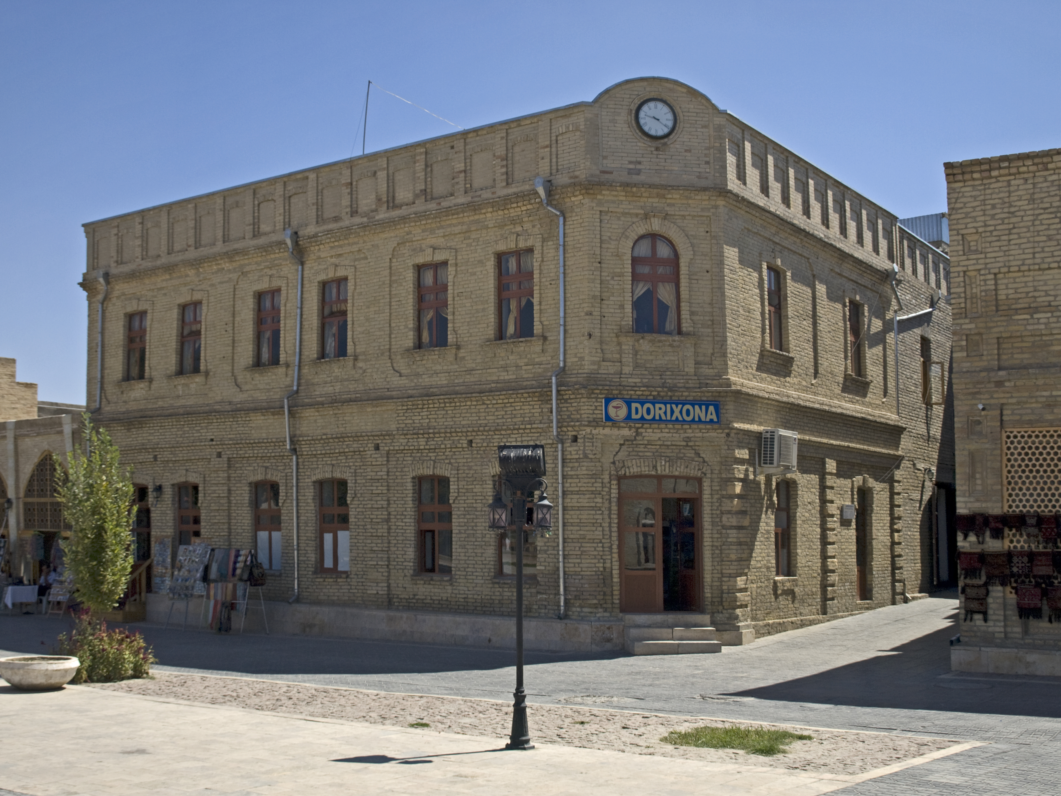 The old pharmacy (Dorixona) building in Bukhara